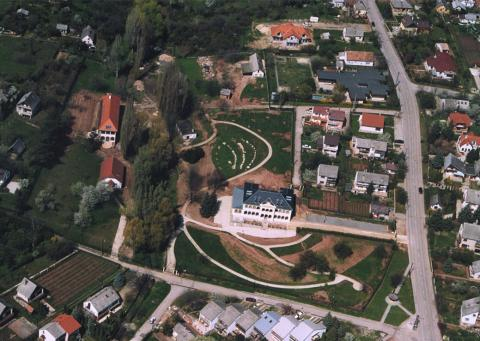 Csopak, Hungary, aerial photography